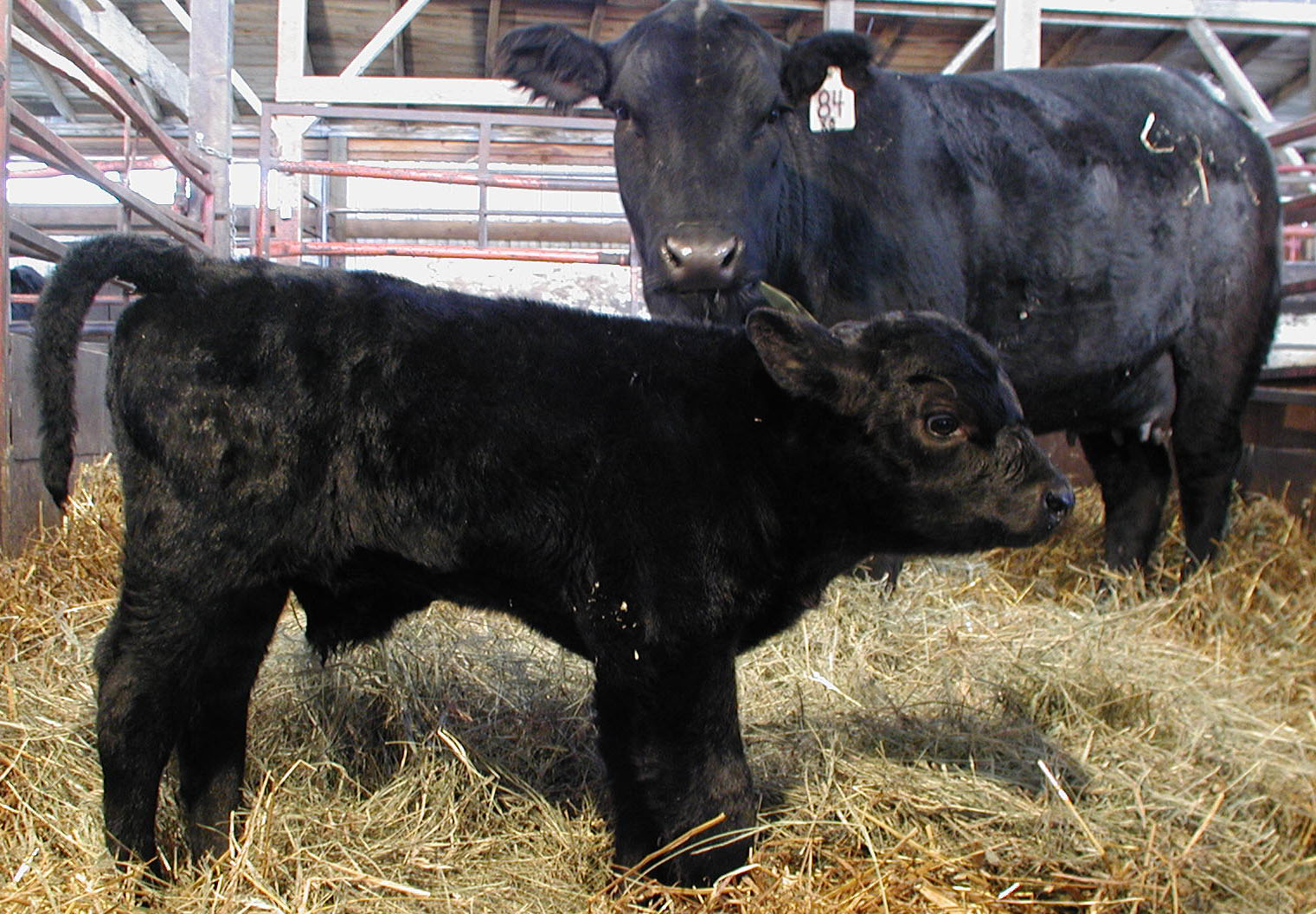 This picture shows a newly born Angus calf with its mother in the background.